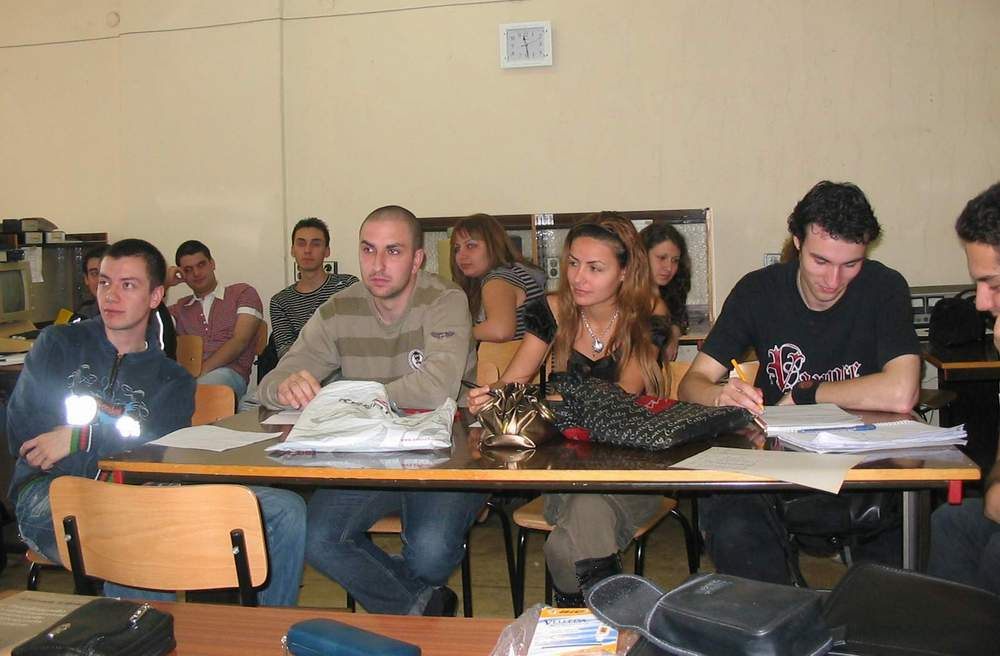 Students from group 65b, Faculty of Computer Systems, Technical University of Sofia